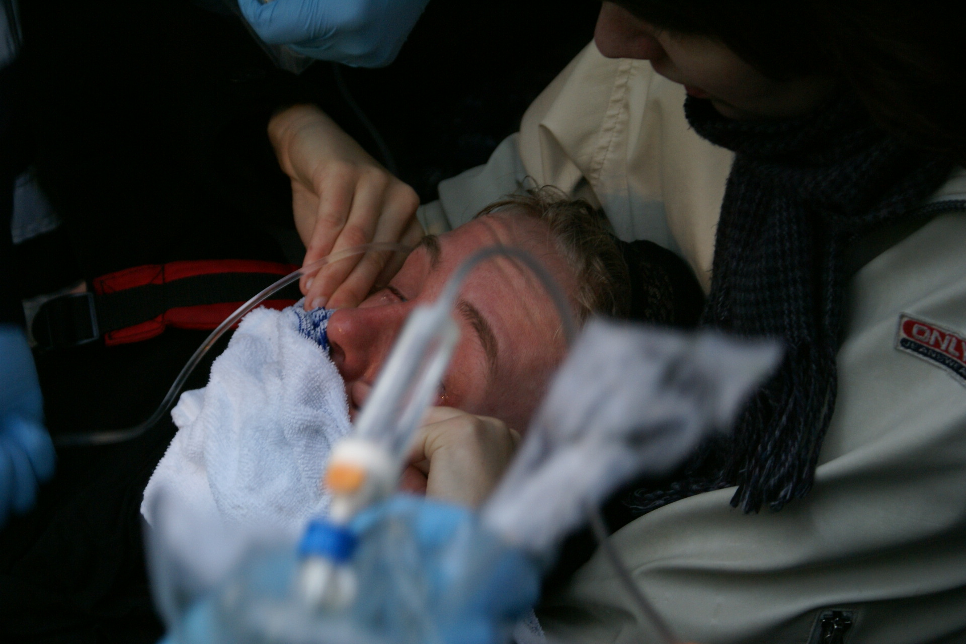 Week 12. Police force that was guarding TV the direct TV show "Kriddsíld" at Hotel Borg. The TV show was diccontinued after some rioting.